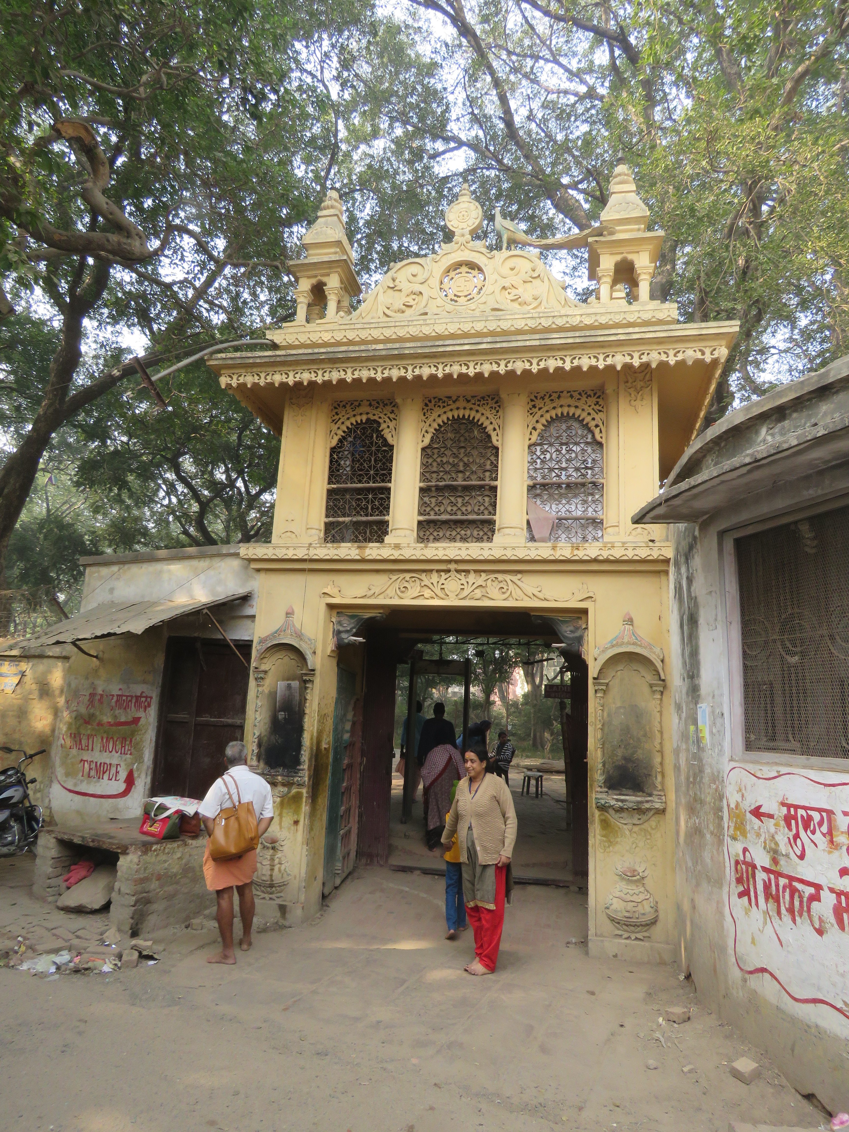 Photos from IRCTC 2017